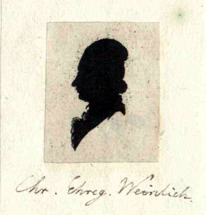 Depicted person: Christian Ehregott Weinlig